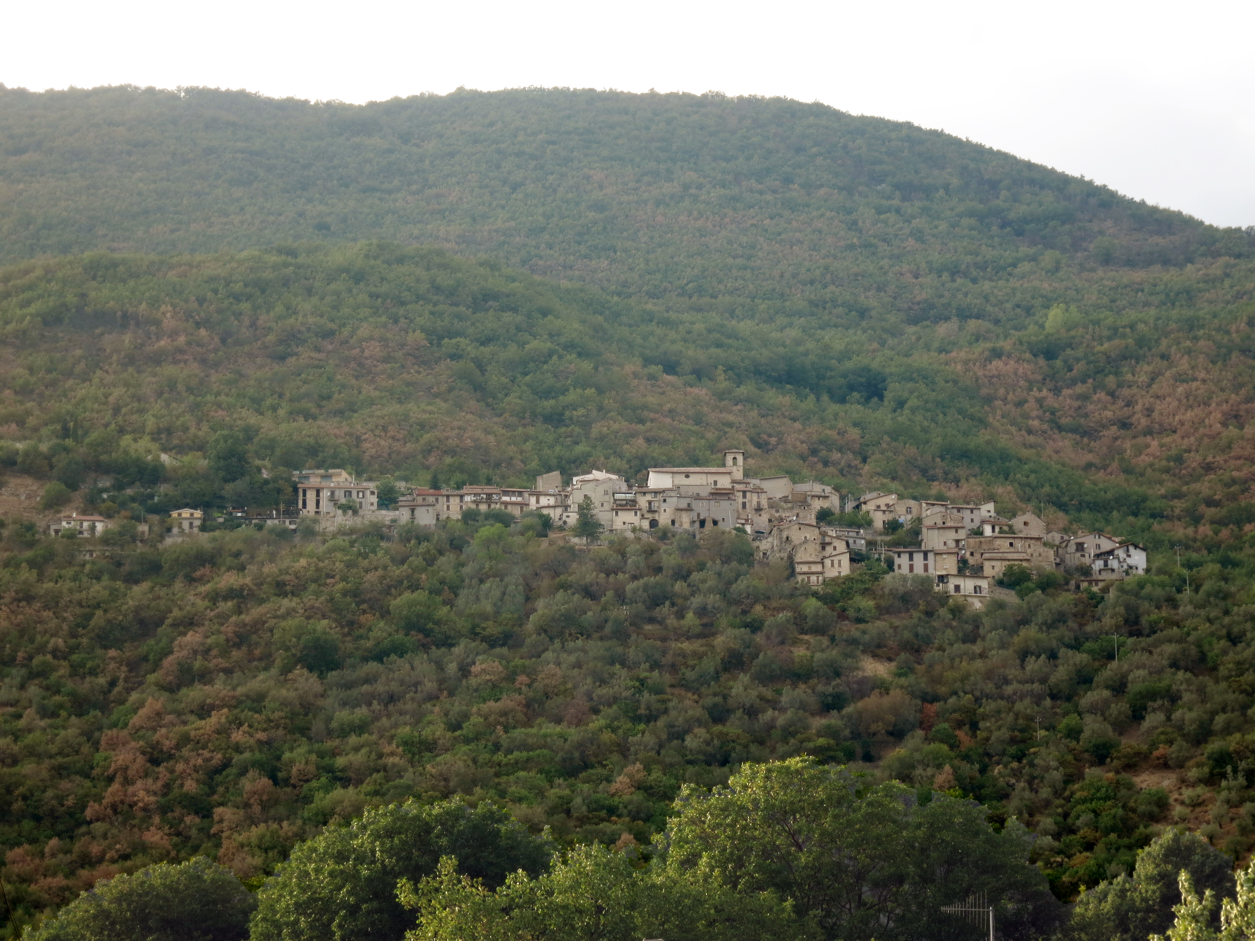 Paterno, village in the municipalty of Castel Sant'Angelo in the province of Rieti (central Italy) as seen from Castel Sant'Angelo railway station (located in the village of Vasche)